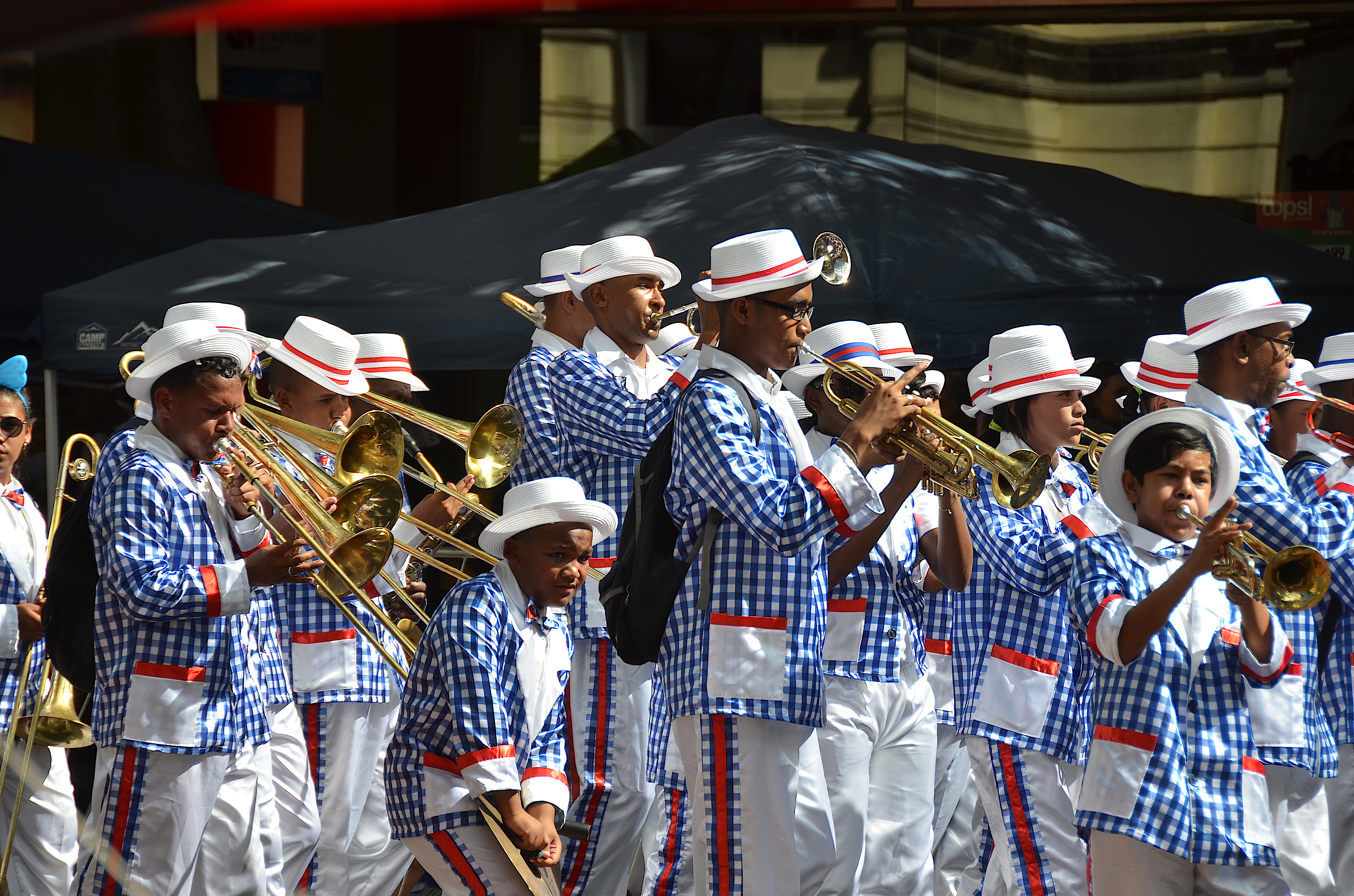 Kaapse Klopse marching through Cape Town (2017)